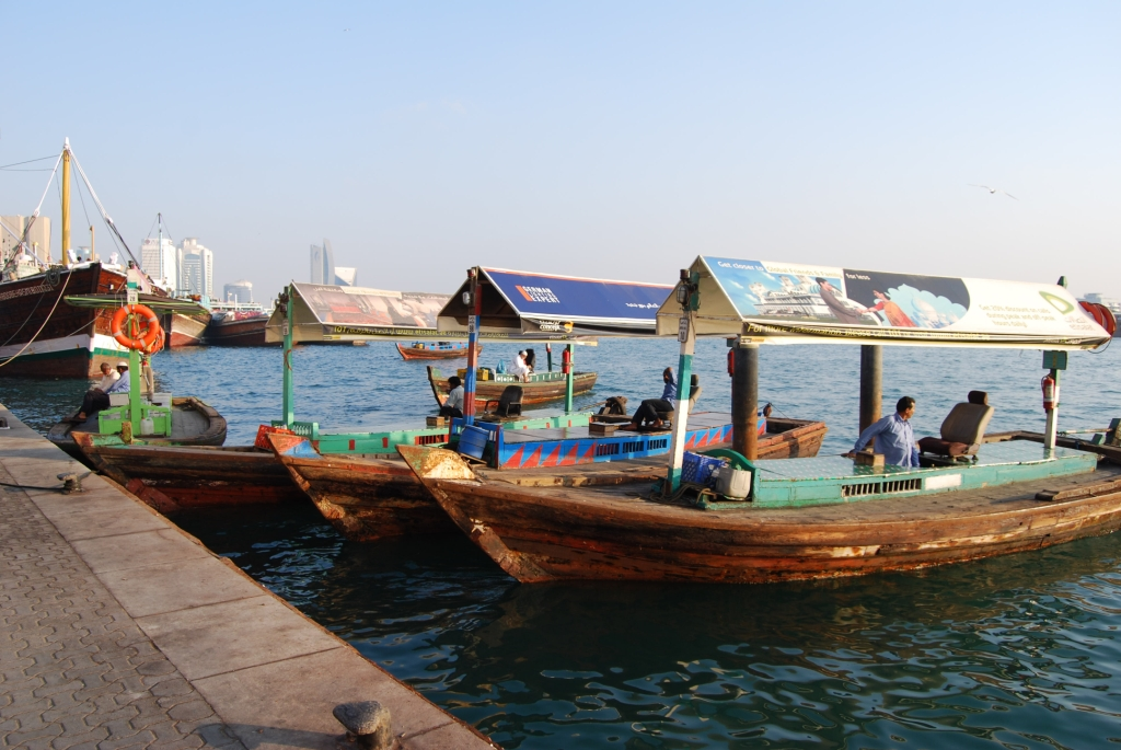 Transportation boats in Dubai (Abra). Photo by Rajesh Kakkanatt